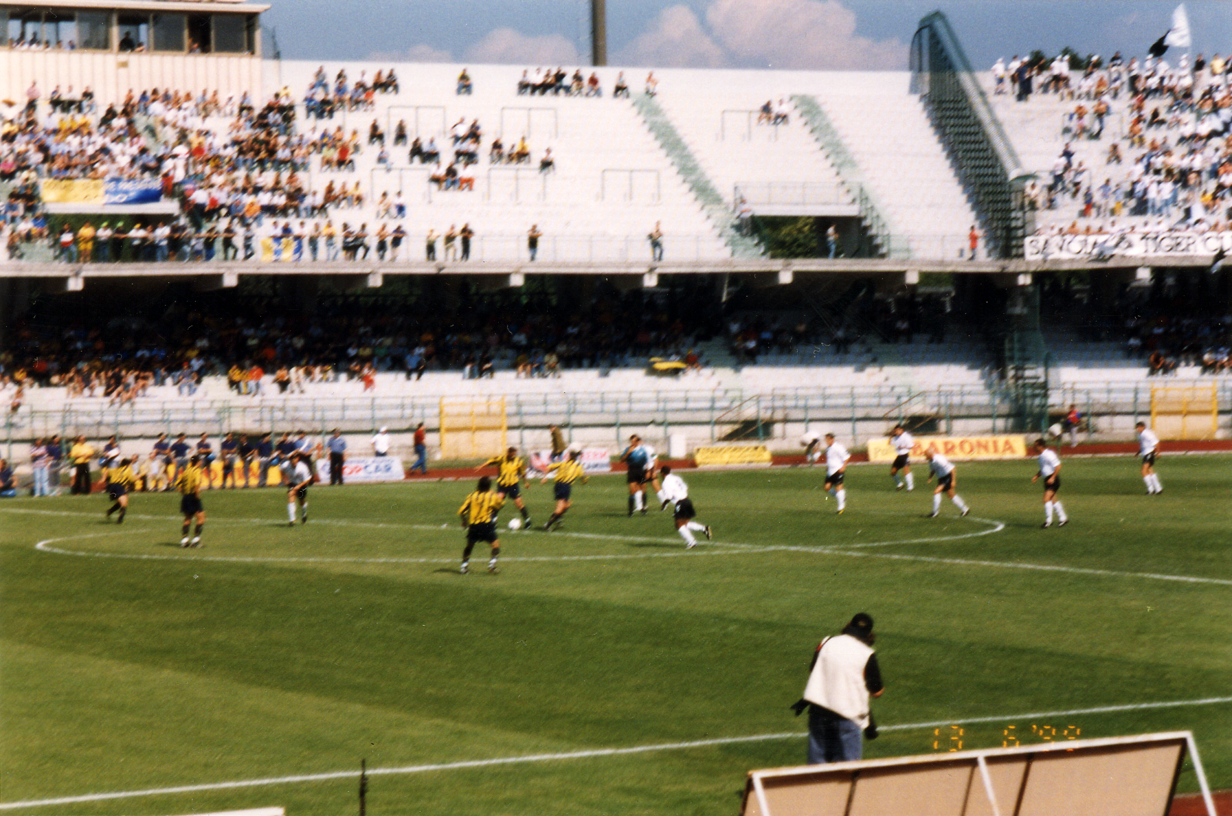 Savoia-Juve Stabia 2-0 on 13 June 1999 play-off final